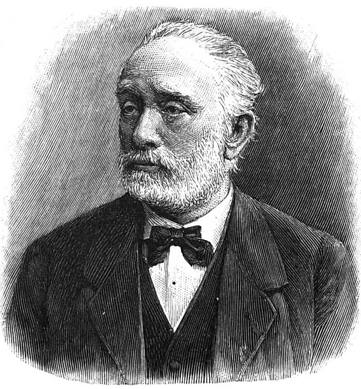 caption: "Ludwig Büchner. Nach einer Photographie von G Brandseph in Darmstadt."